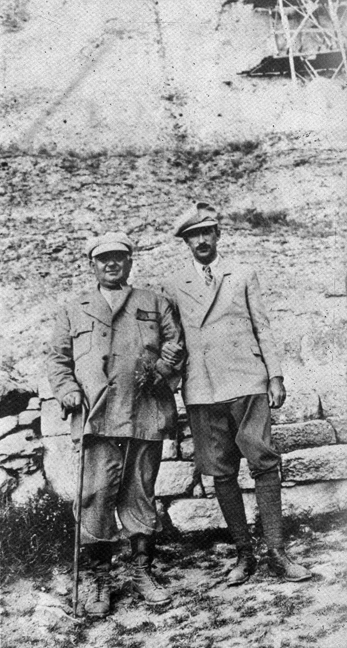 Rafail Popov (left) and Boris III of Bulgaria